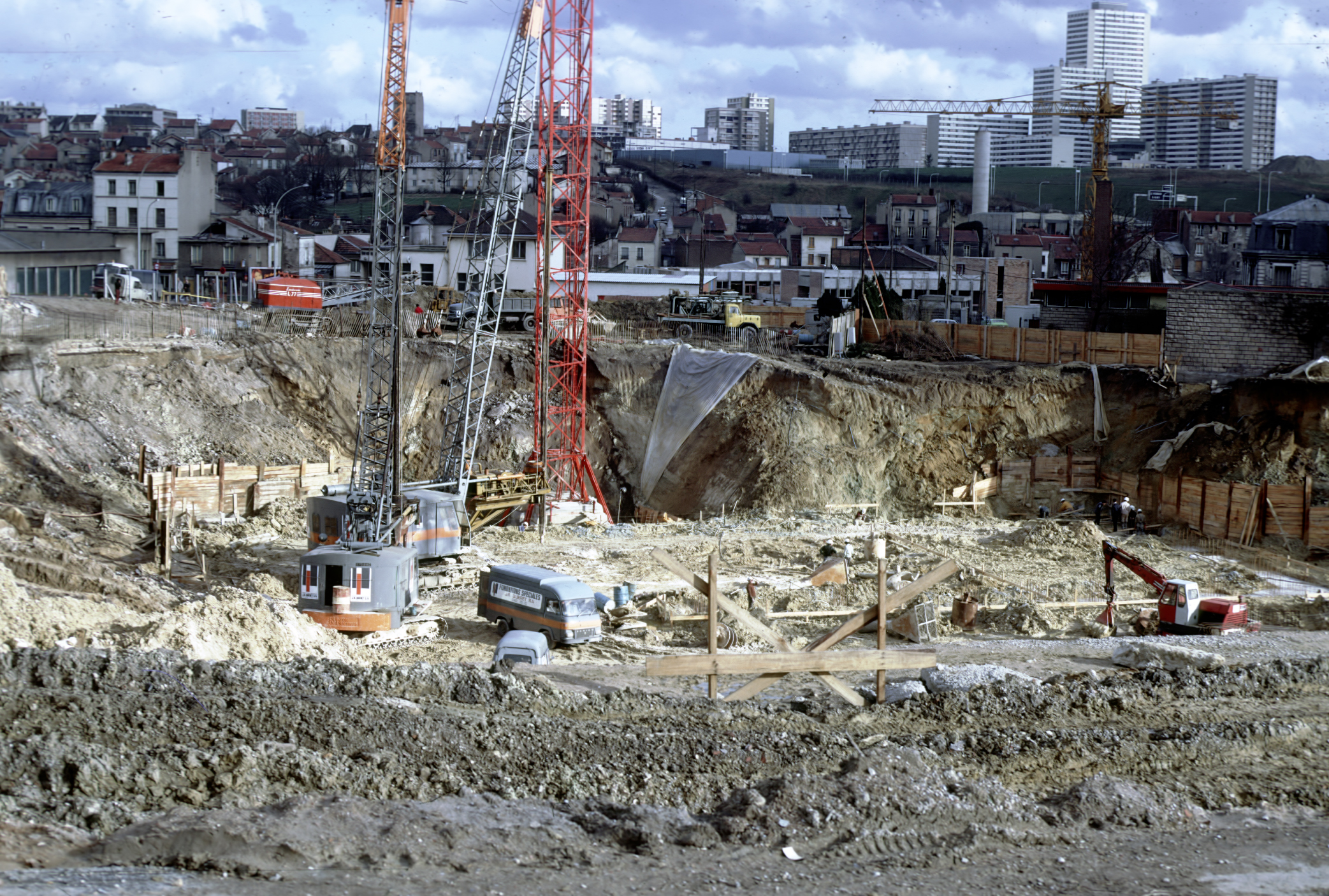 Les Mercuriales under construction